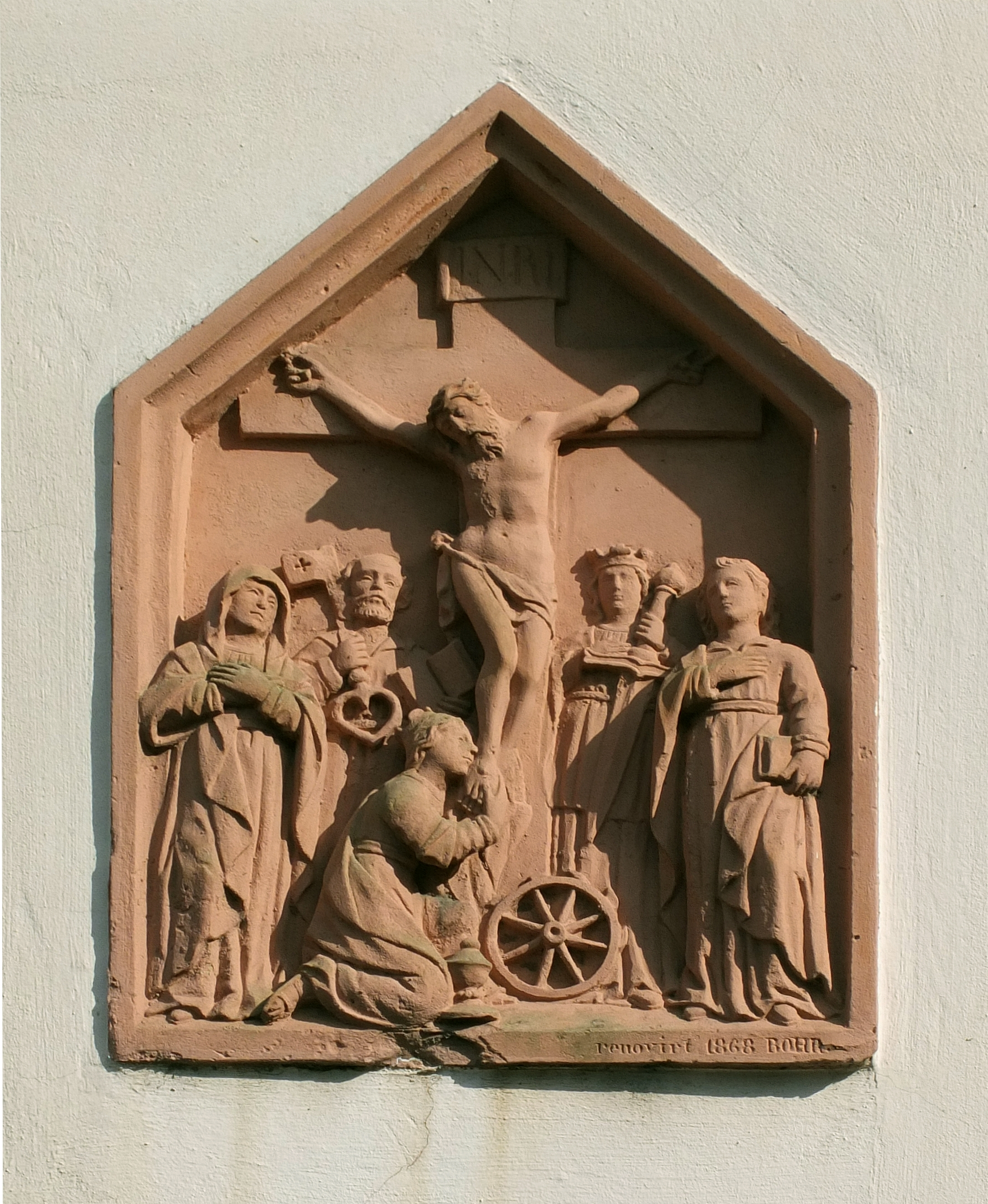 Wayside shrine in Trier, Germany, Feldstr. 35. This is a photograph of an architectural monument.It is on the list of cultural monuments of Trier